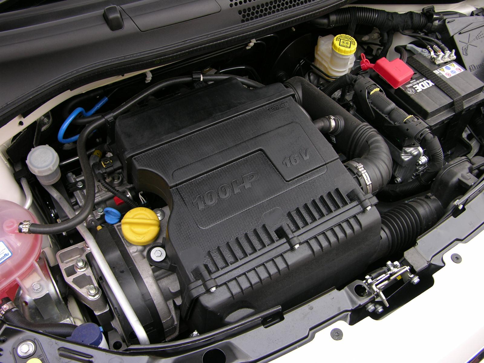 Fiat 1.4 engine in Fiat 500 Lounge.